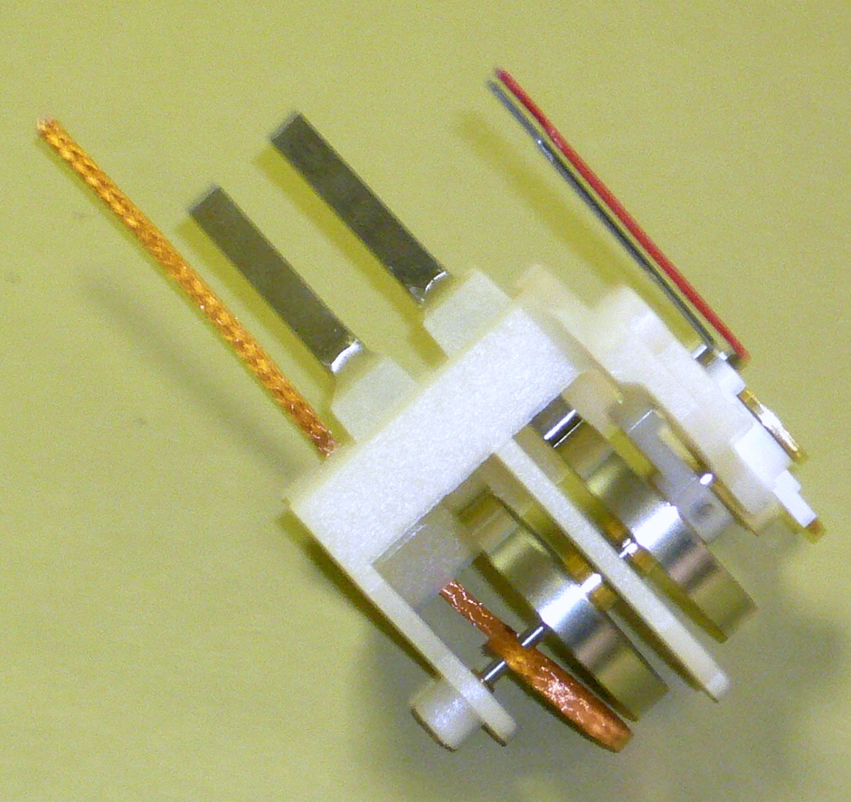 Bimetal instrument